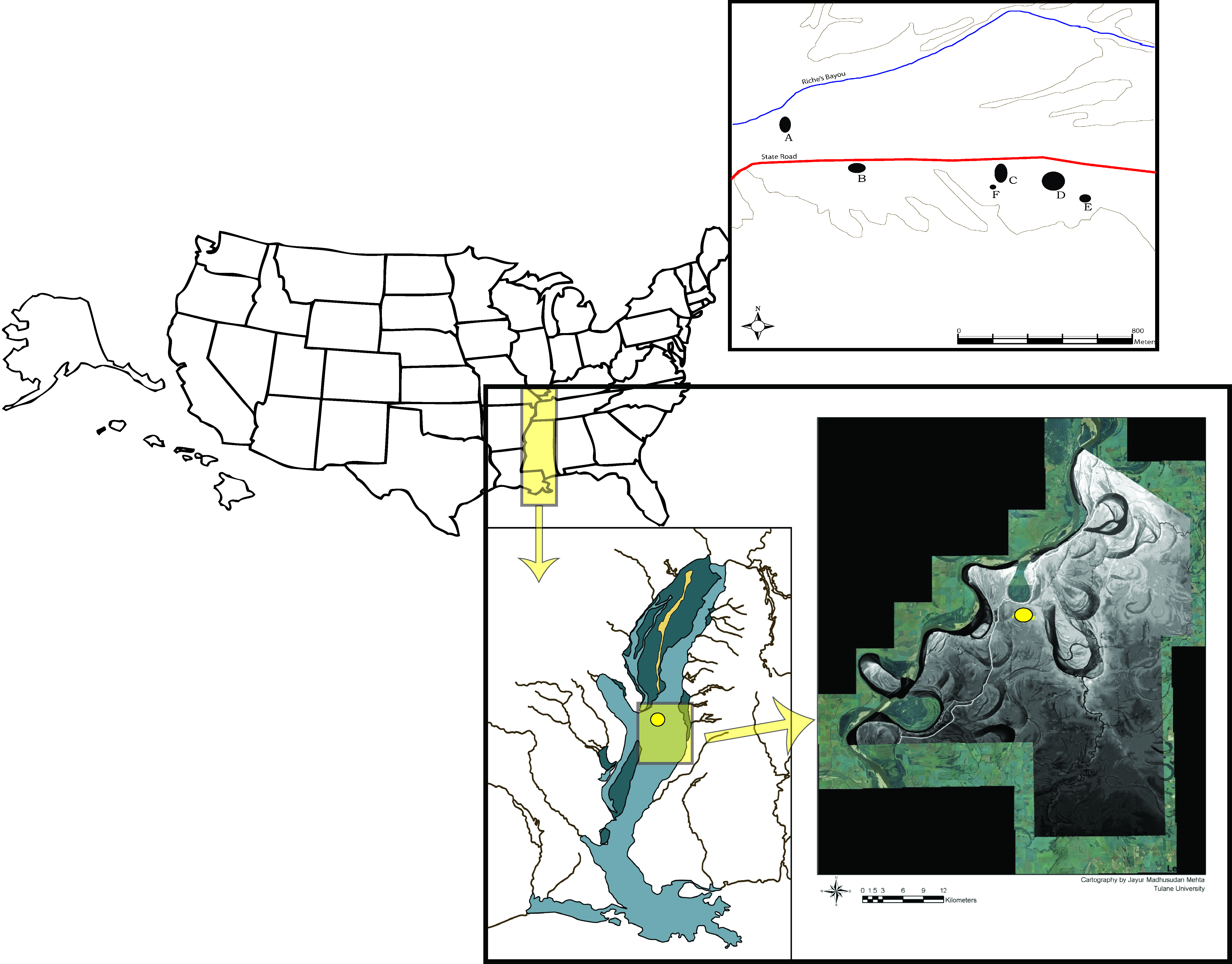 Composite image of Carson Mounds site location